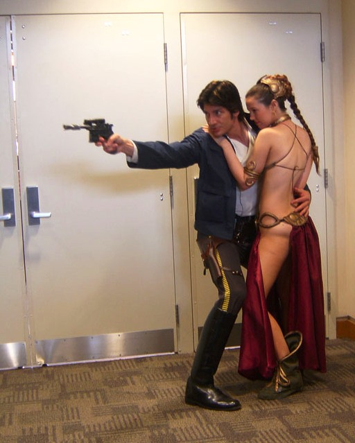 Han does his best to protect Leia from wandering eyes